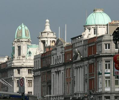 The imposing buildings of Lower O'Connell Street, Dublin, Ireland, built in a restrained neoclassical style between 1918 and 1923. They make use of Irish granite and limestone, red brick and Portland stone, with copper as a roofing material.